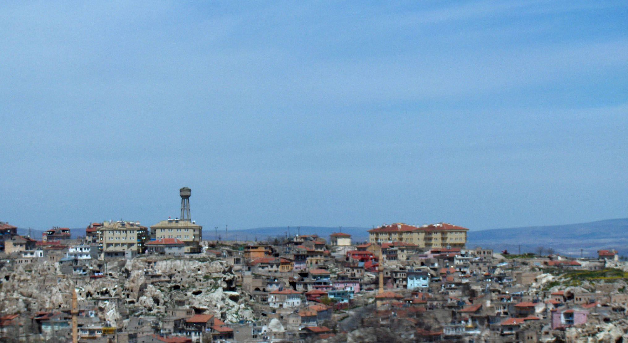 View on Nevşehir; central Anatolia, Turkeye